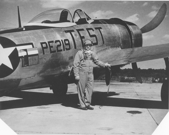 Herbert O. Fisher; c. 1947